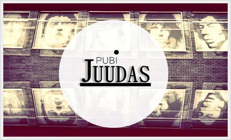 One of the logos of pub juudas, a pub in Tõrva, Estonia.